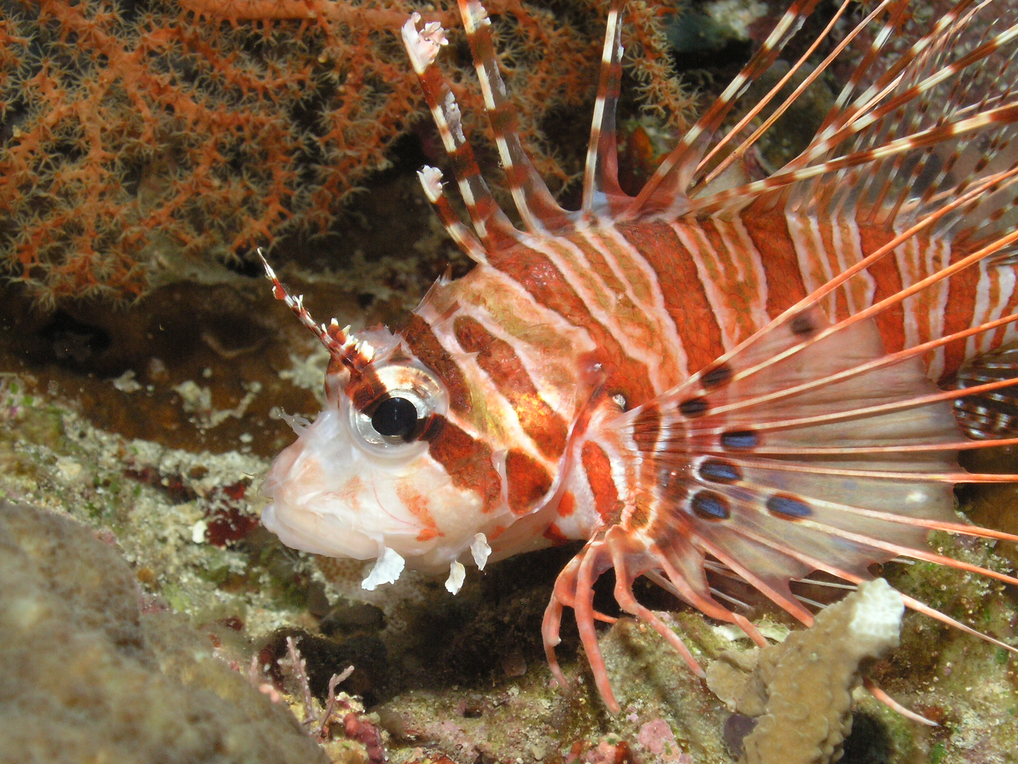 Spotfin Lionfish (Pterois sp.) at Bunaken Marine Park, North Sulawesi